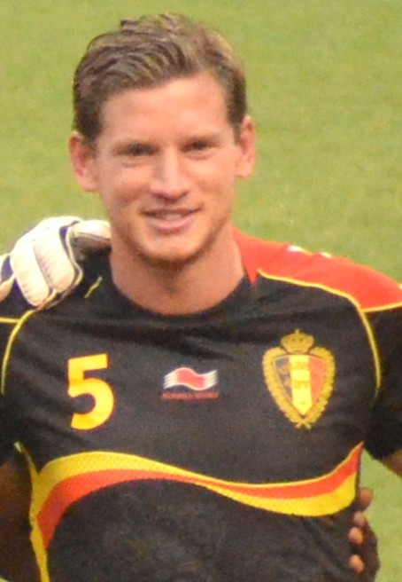 Taken at FirstEnergy Stadium Home of the Cleveland Browns